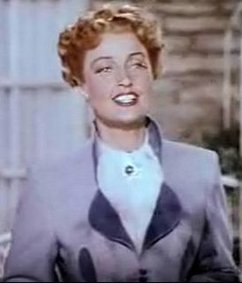 Cropped screenshot of Jeanette MacDonald from the trailer for the film The Sun Comes Up